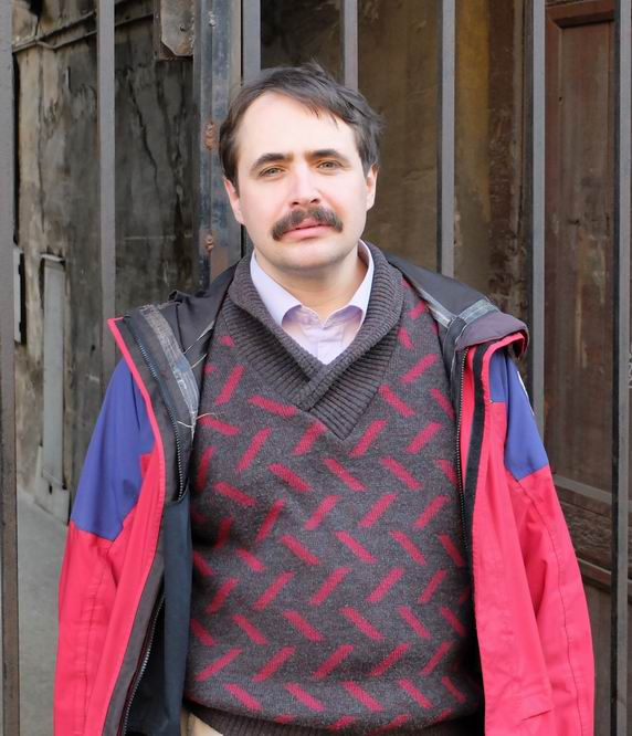 Pak Noja (Russian, Norvegian and South Korean academic of Korean studies, communist and columnist) St. Petersbourg, Tuchkov Lane, Vasilevsky Island, 19 april 2014. I give this photo with a free license, subject to attribution in the following form: «photo: Yuri Khanon, 2014»).